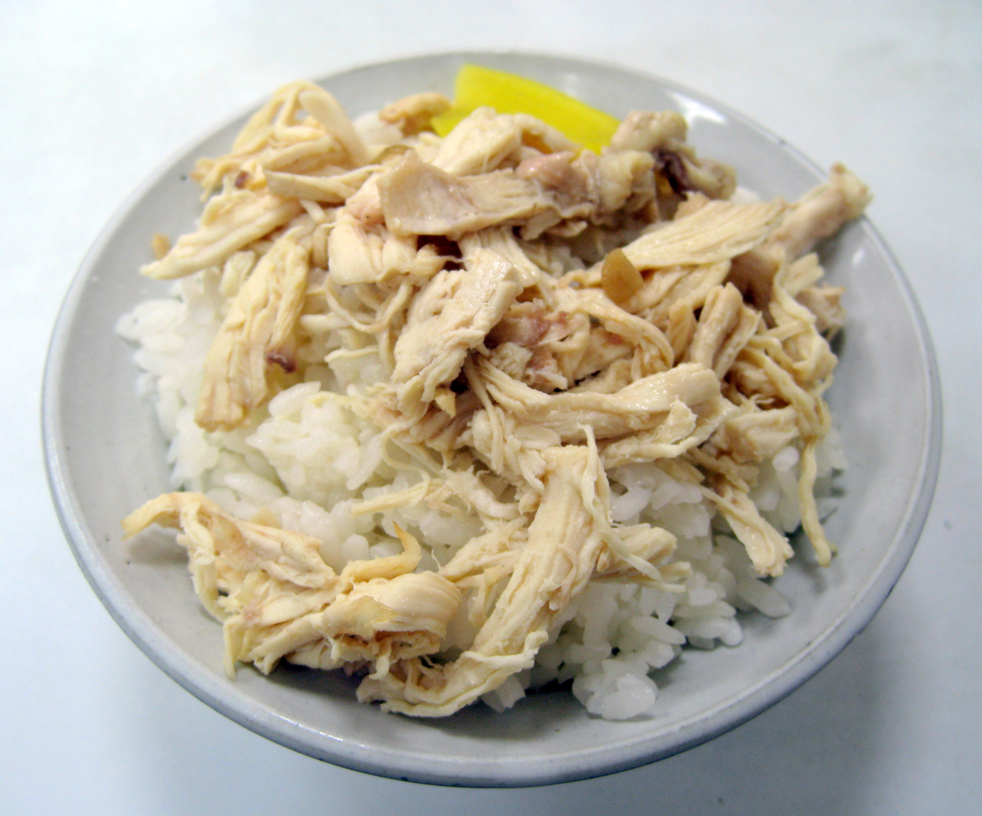 Jiroufan(鶏肉飯), chicken with rice - commen meal of Taiwan.